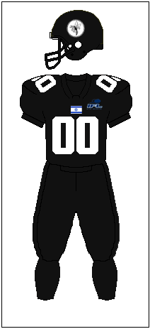 BSBLACKSWARM UNIFORM2011